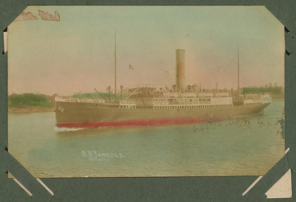 Hand coloured postcard of S. S. Yongala